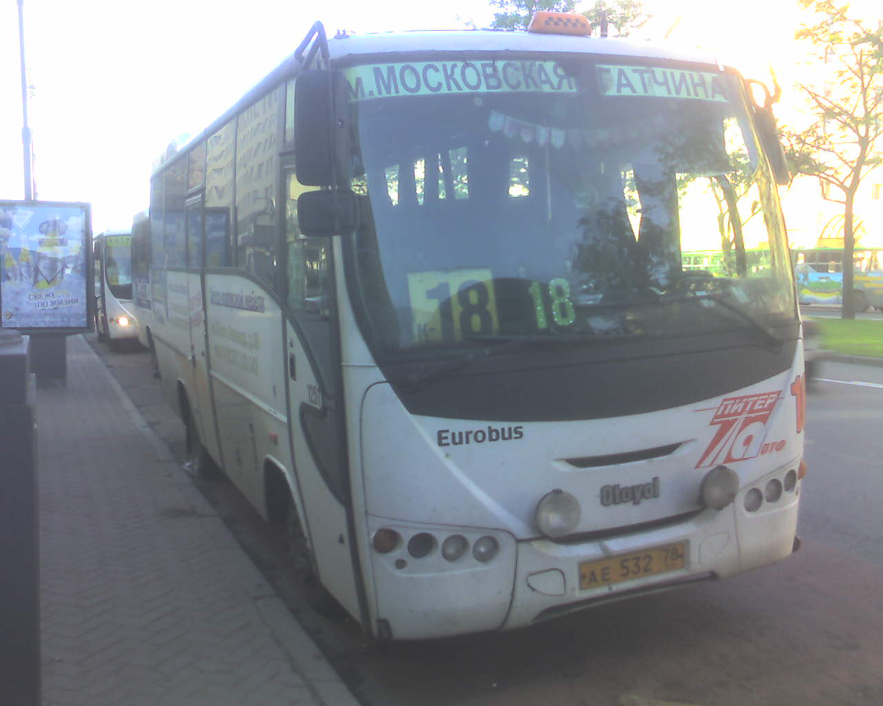 Bus Otoyol E29.14 OOO "Piteravto", Saint Petersburg, Russia.